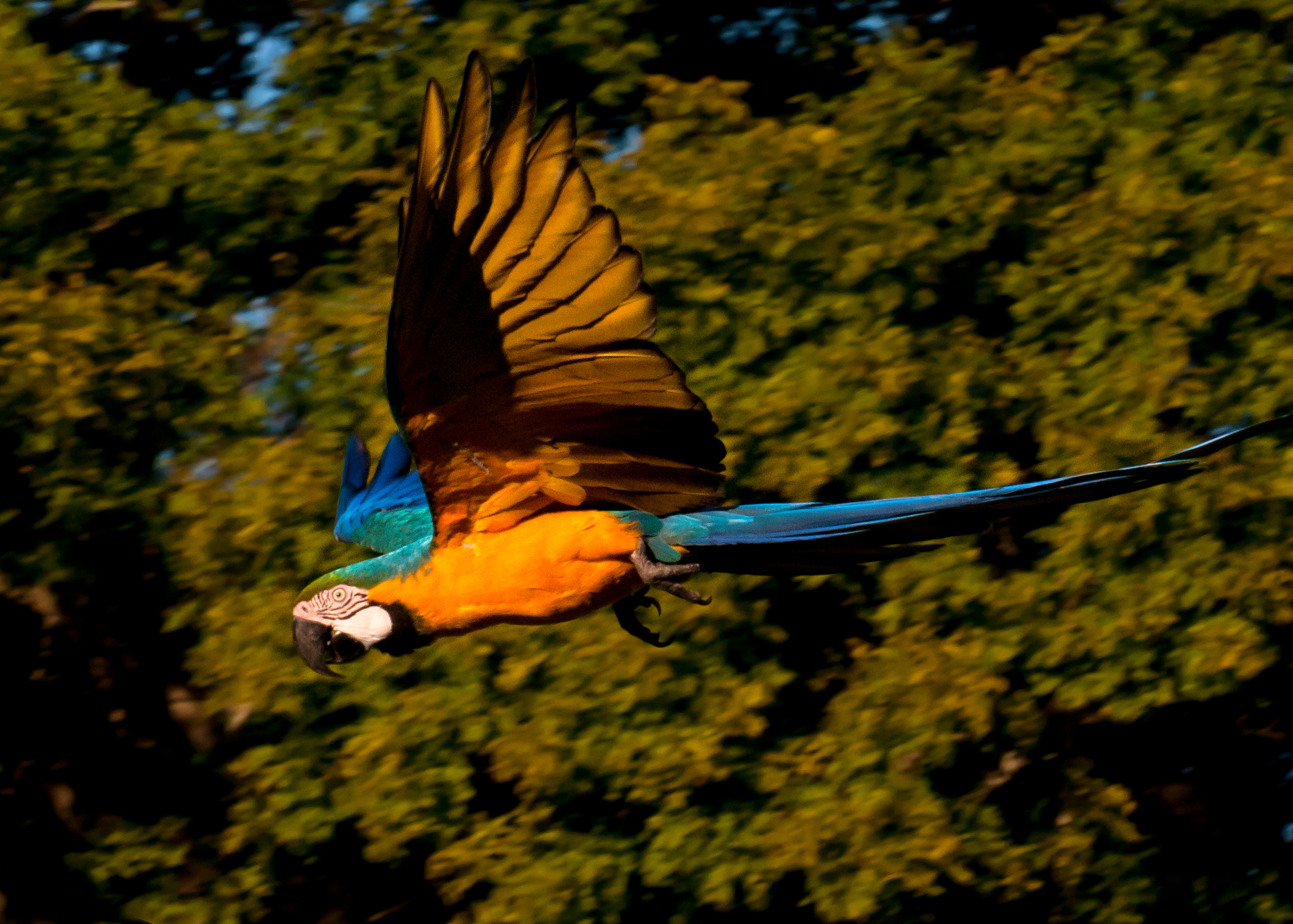 A Blue-and-yellow Macaw (also known as the Blue-and-gold Macaw) flying in Bonito, Mato Grosso do Sul, Brazil.